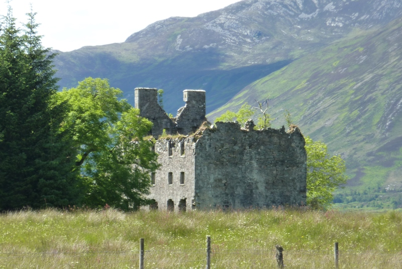 Bernera Barracks, Glenelg, Highland, Scotland